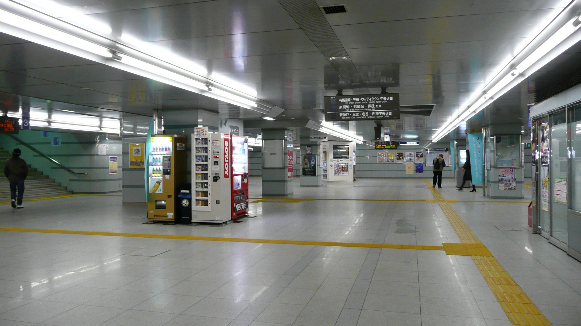 Kobe Electric Railway and Hokushin Kyuko Railway Taniami Station concourse